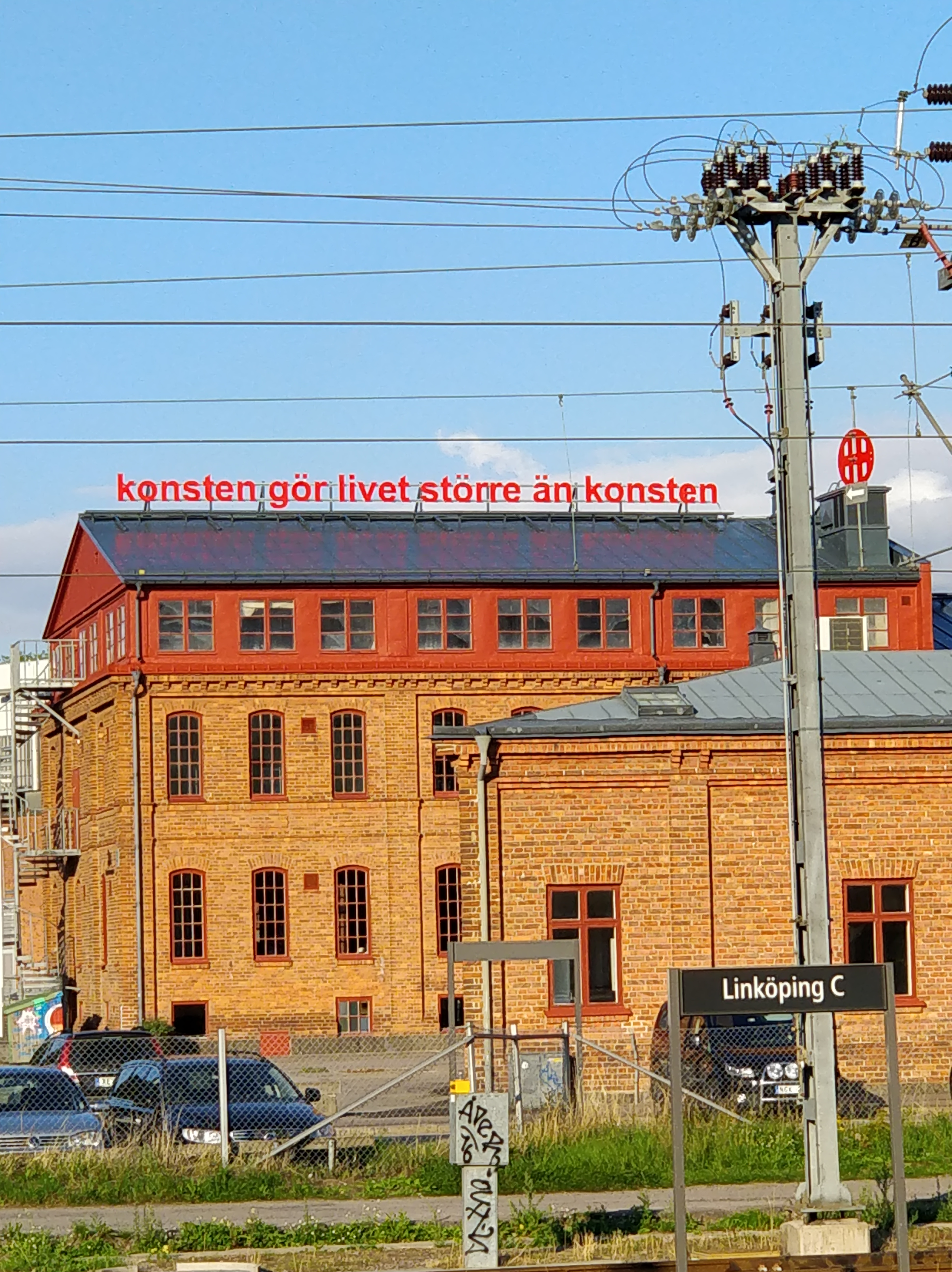 Skylten cultural center, Linköping, Sweden